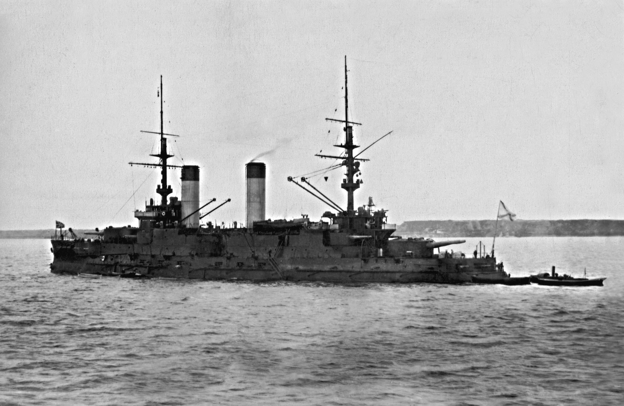 Battleship Borodino.